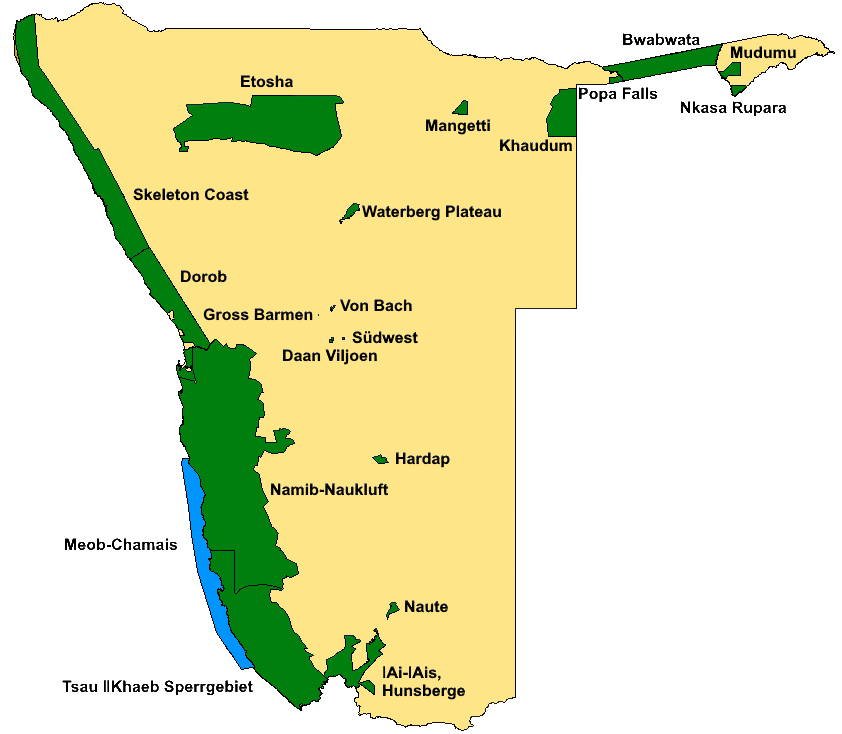 State Protected Areas in Namibia in 2011 with names based on data of "Environment Information Service Namibia" ( and produced with "Quantum GIS" software.